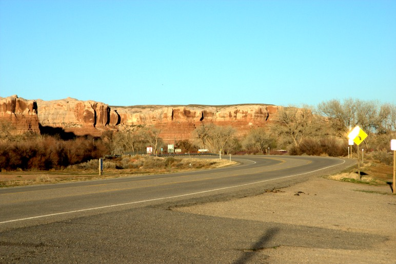 Bullpup Canyon in Bluff, Utah.